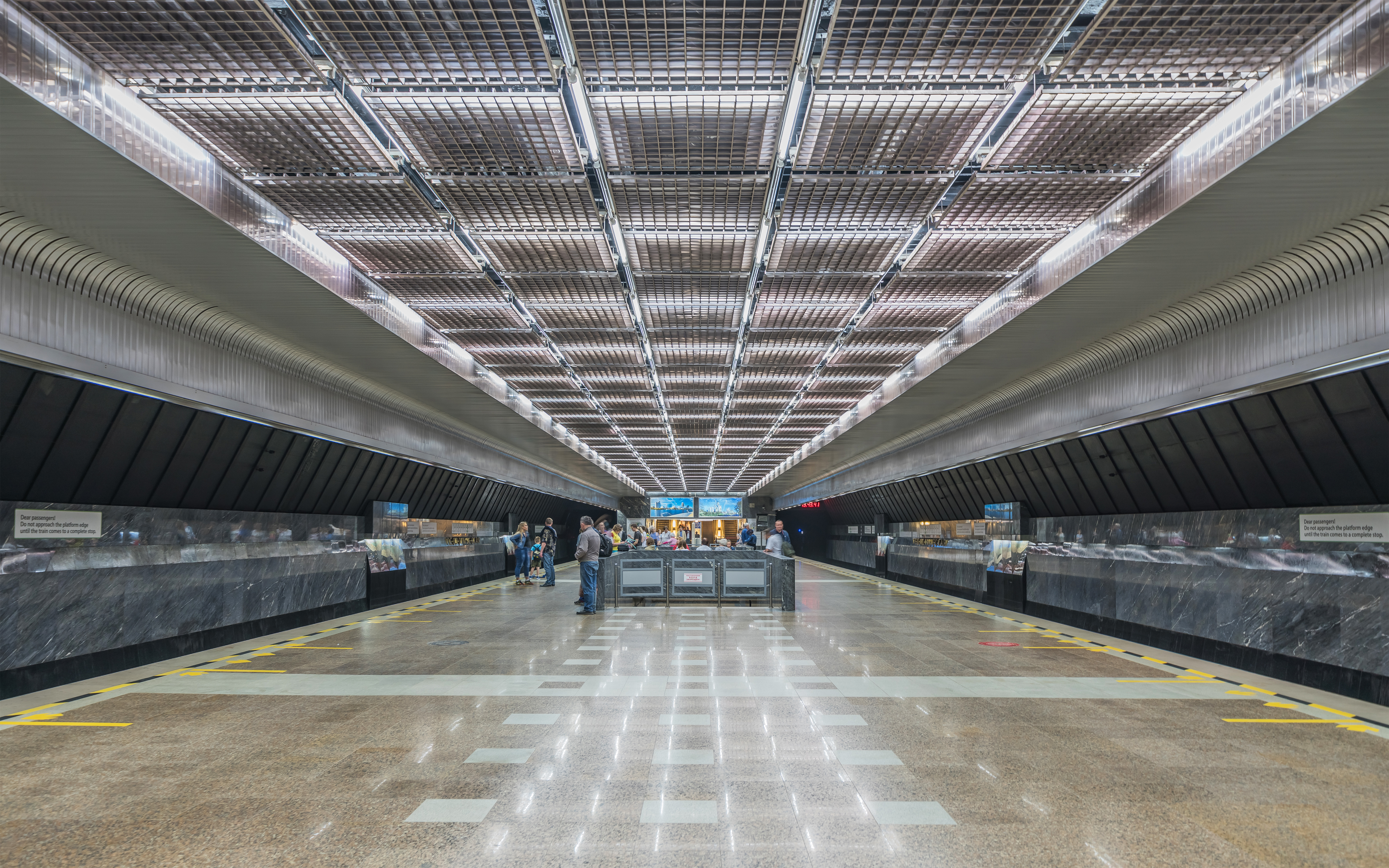 Geologicheskaya metro station in Ekaterinburg, Russia